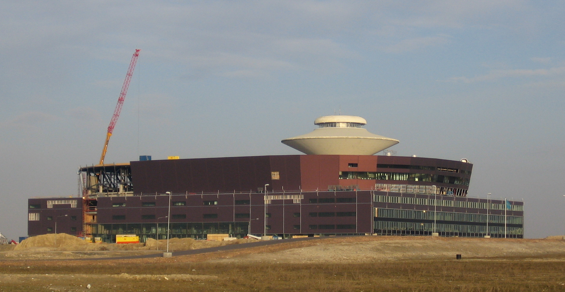 Hyllie arena, Malmö, exterior almost finished.